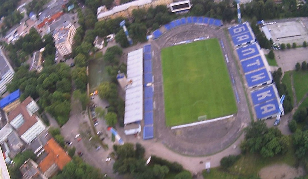 Stadium "Baltika" in Kaliningrad (by aircraft)